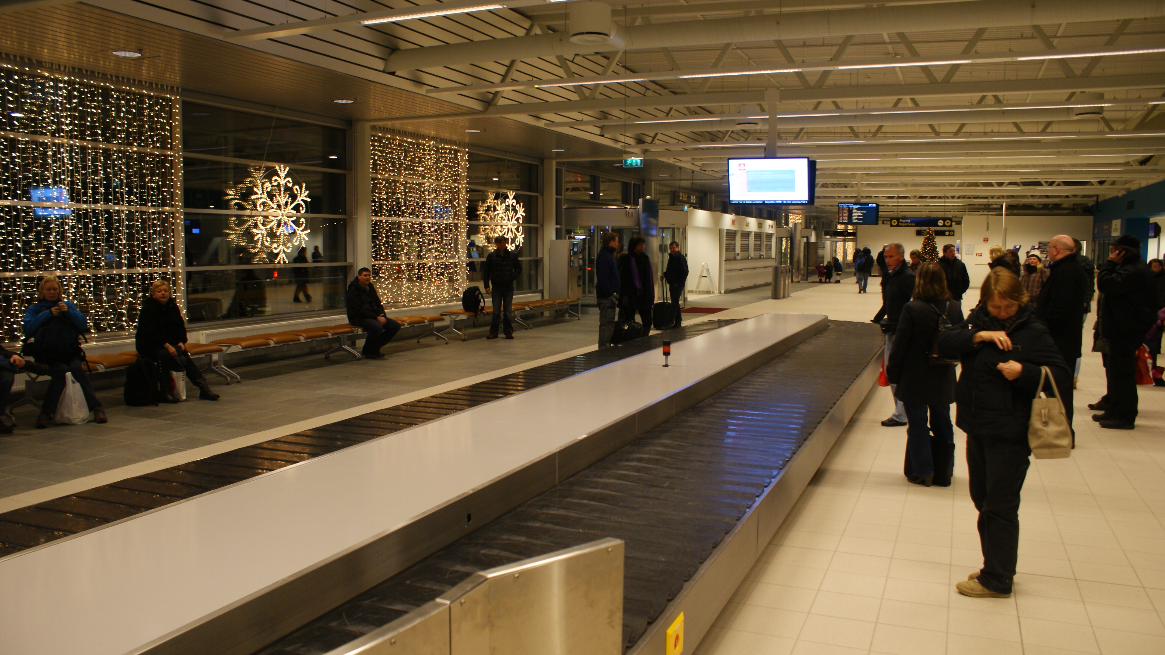 Alta Airport, Finnmark, Norway. Conveyor belt in the new terminal, opened September 2009